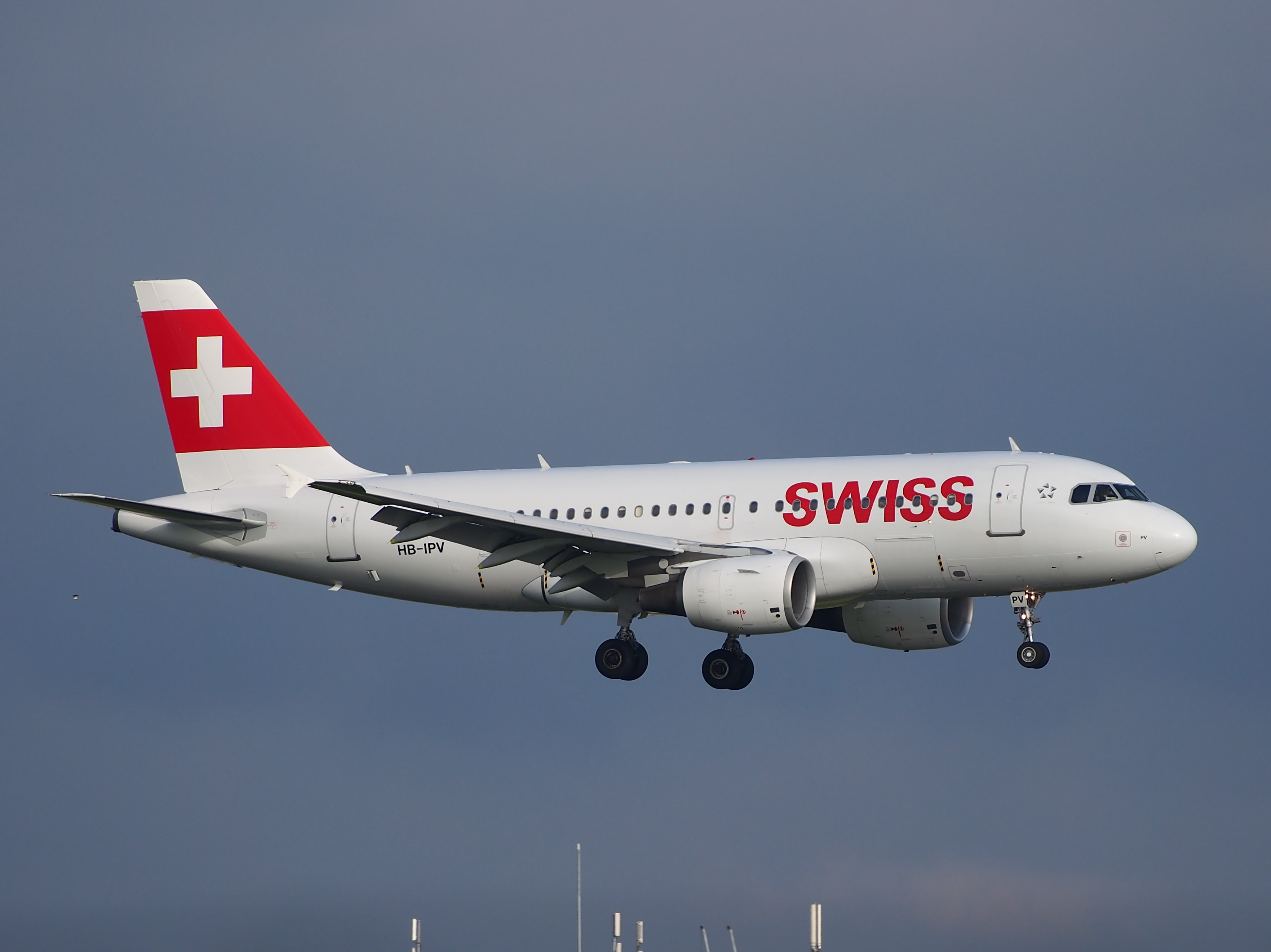 Photographed at Schiphol (AMS - EHAM), The Netherlands.